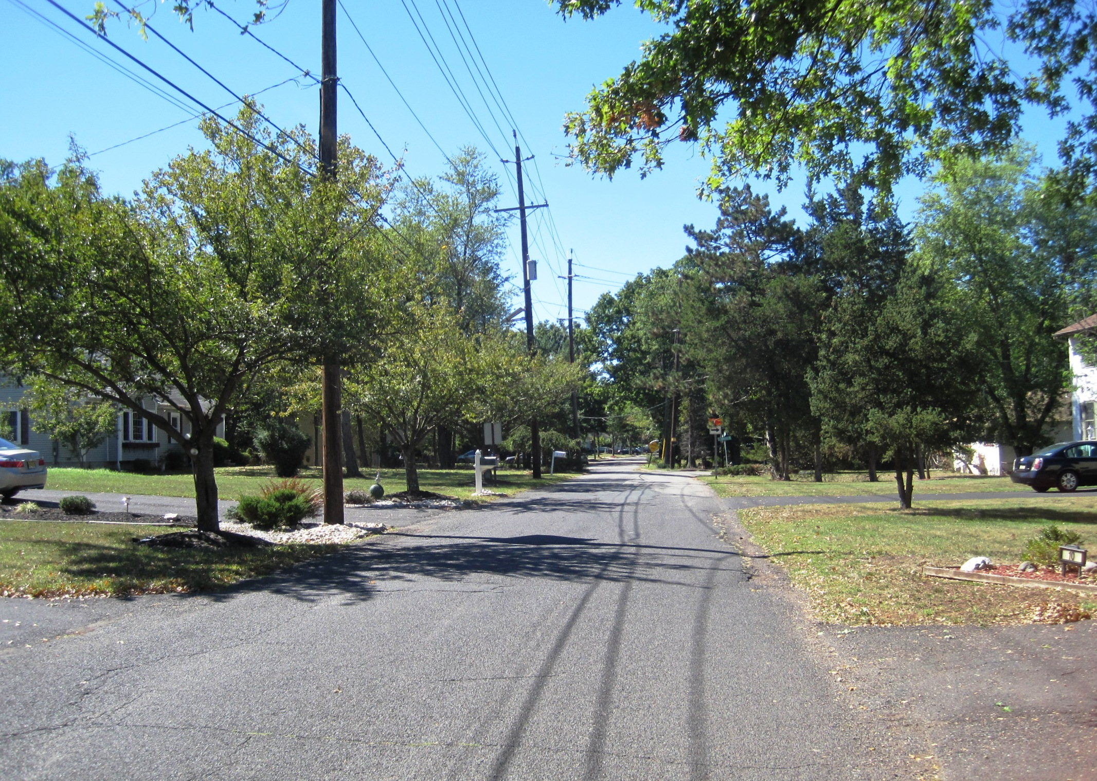 Photograph showing Possumtown, New Jersey, an unincorporated community within Piscataway Township. Photo taken along westbound 3rd Avenue approaching Hancock Avenue.